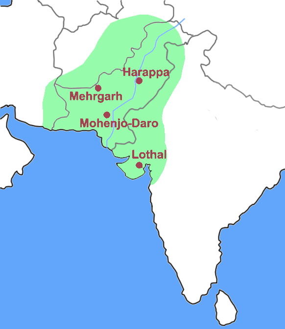 Simple map of Indus Civilization (or Harappa civilization) with few most important archeological sites. Redrawing from fr.wikipedia